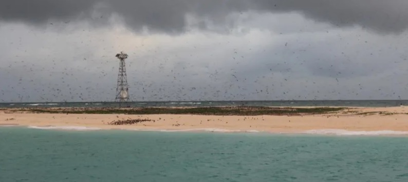 Bird activity on Bramble Cay in the late afternoon.